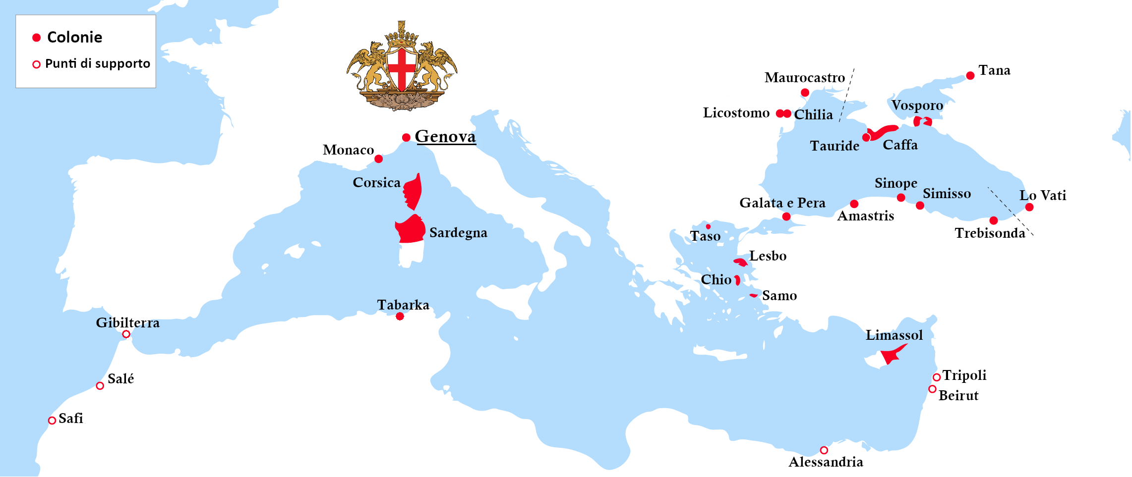 Map of Genoese colonies